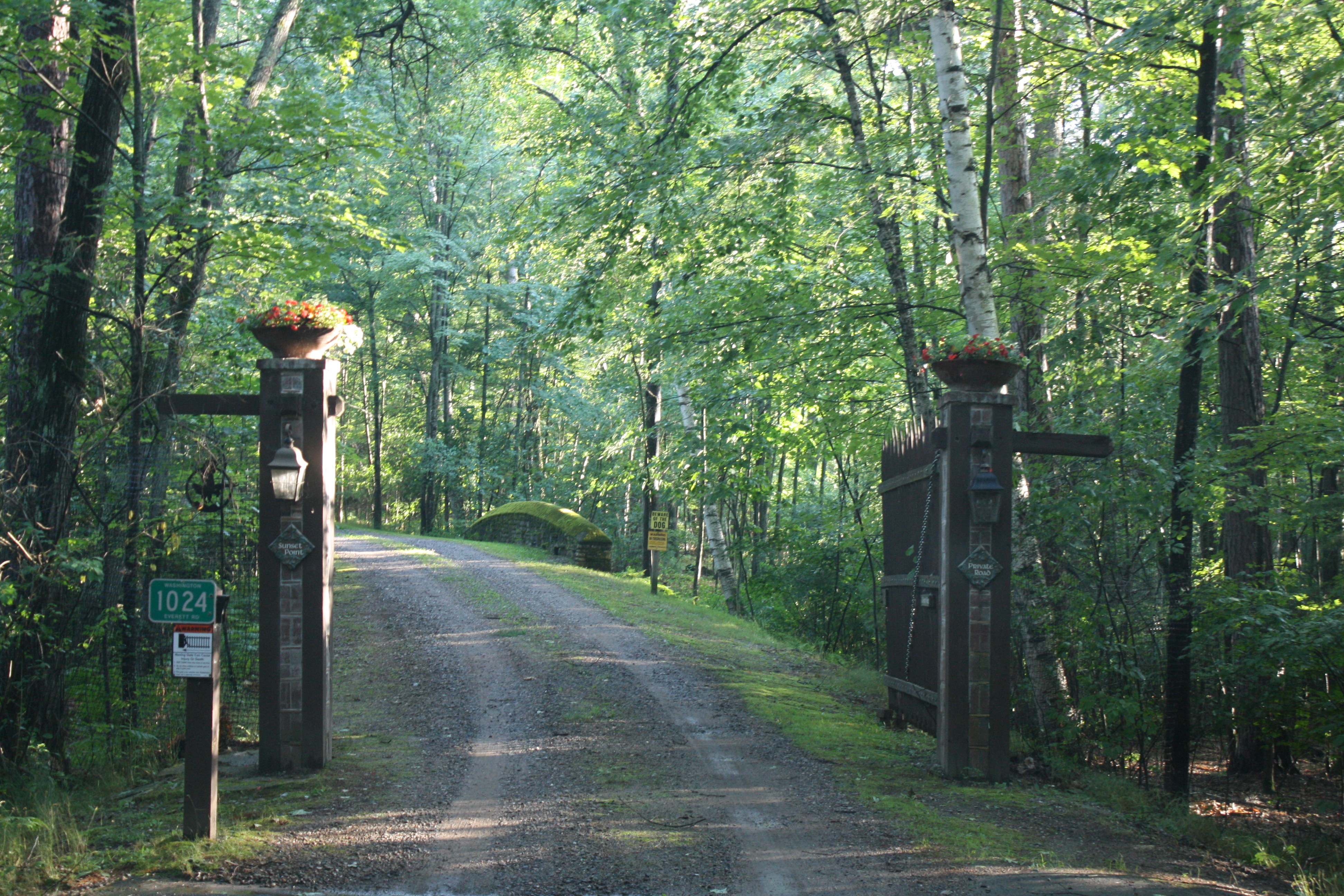 The entrance to Sunset Point (Eagle River). It is listed on the National Register of Historic Places.